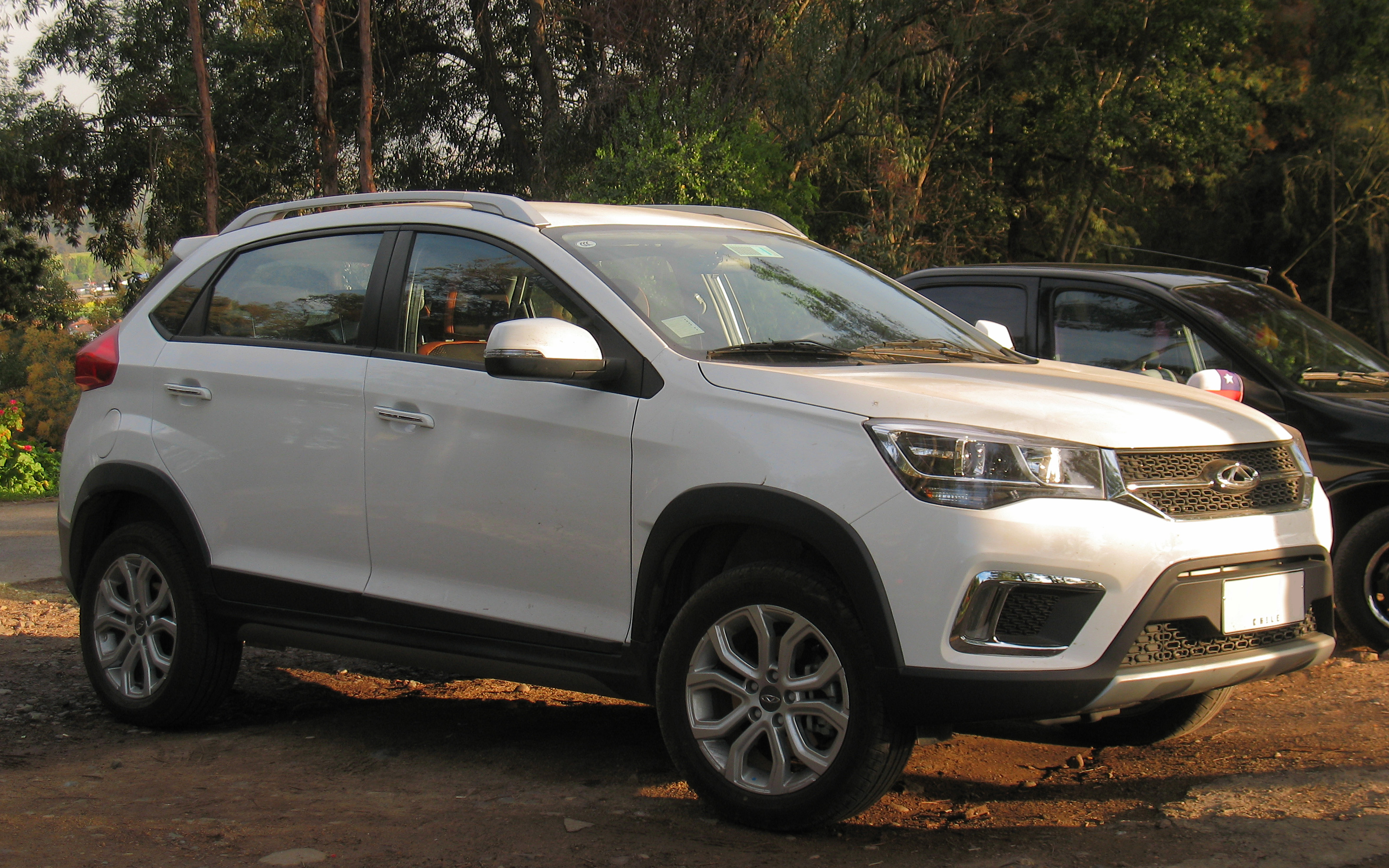 Chery Tiggo2 1.5 GL 2017